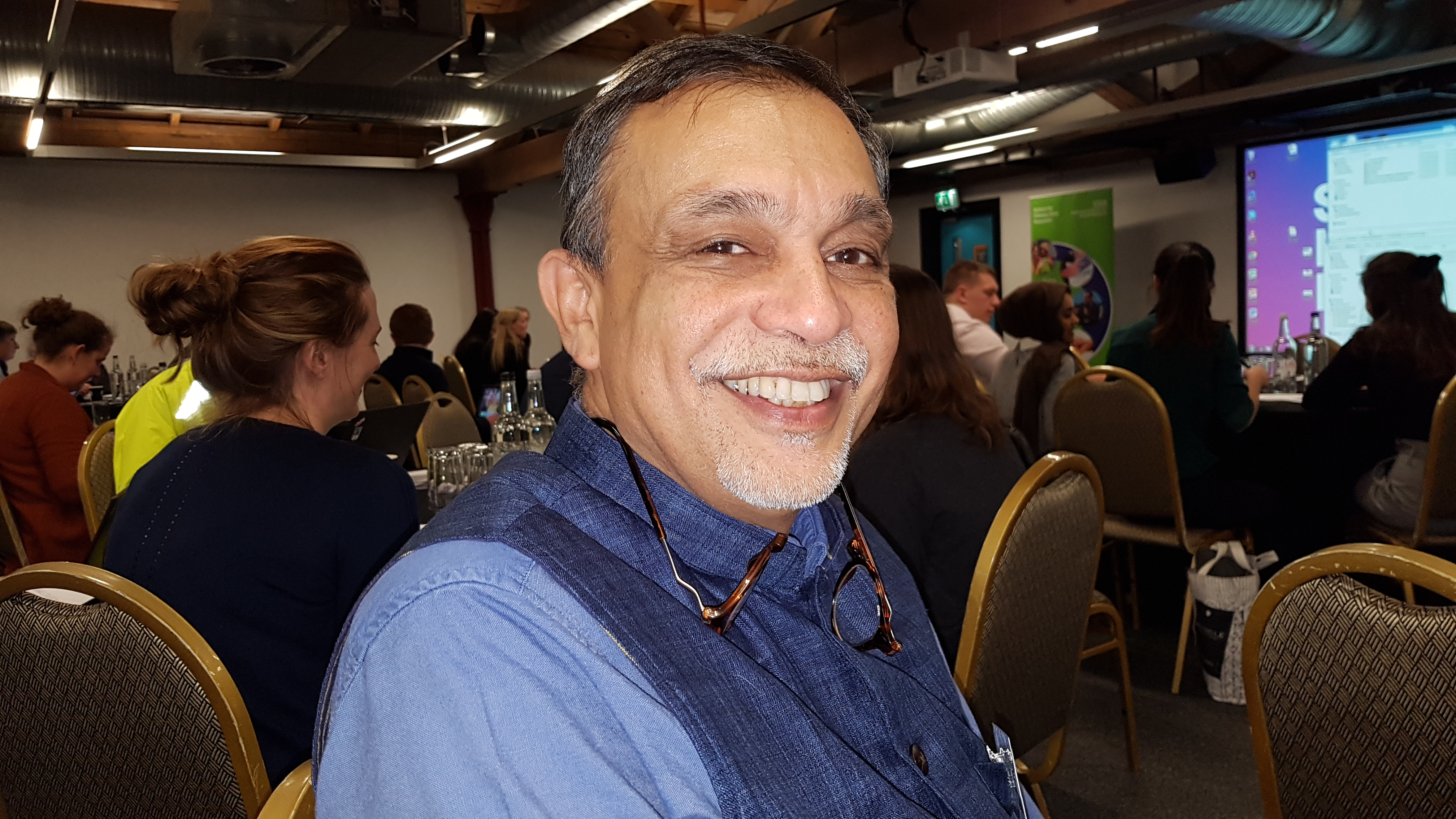 Prof Aneez Esmail at the National GP Academic Cinical Fellow conference